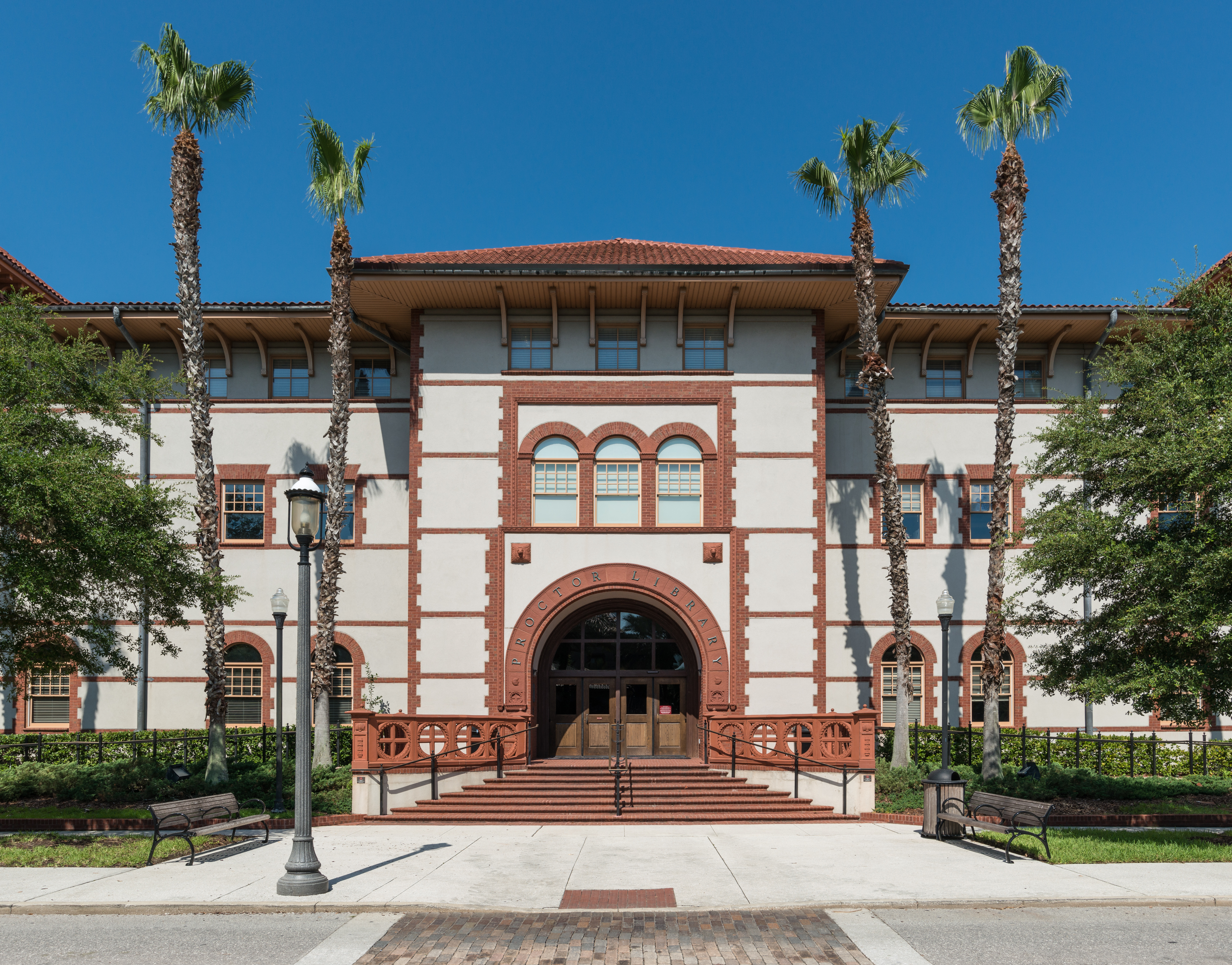 An east view of the Proctor Library at Flagler College, St. Augustine, Florida